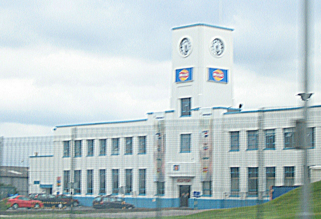 Walkers Crisp Factory, Fforestfach, Swansea. This was formerly the Smiths crisp factory, until Walkers took them over.